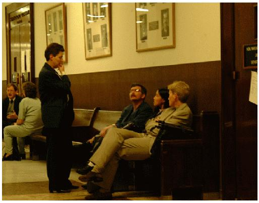 Trial of Kairos Scientific Inc. versus Fish & Richardson. From left to right: Attorney Natasha Roit, Kairos Chief Executive Officer Douglas C. Youvan, Kairos President Mary M. Yang, and Ms. Becky Rickley